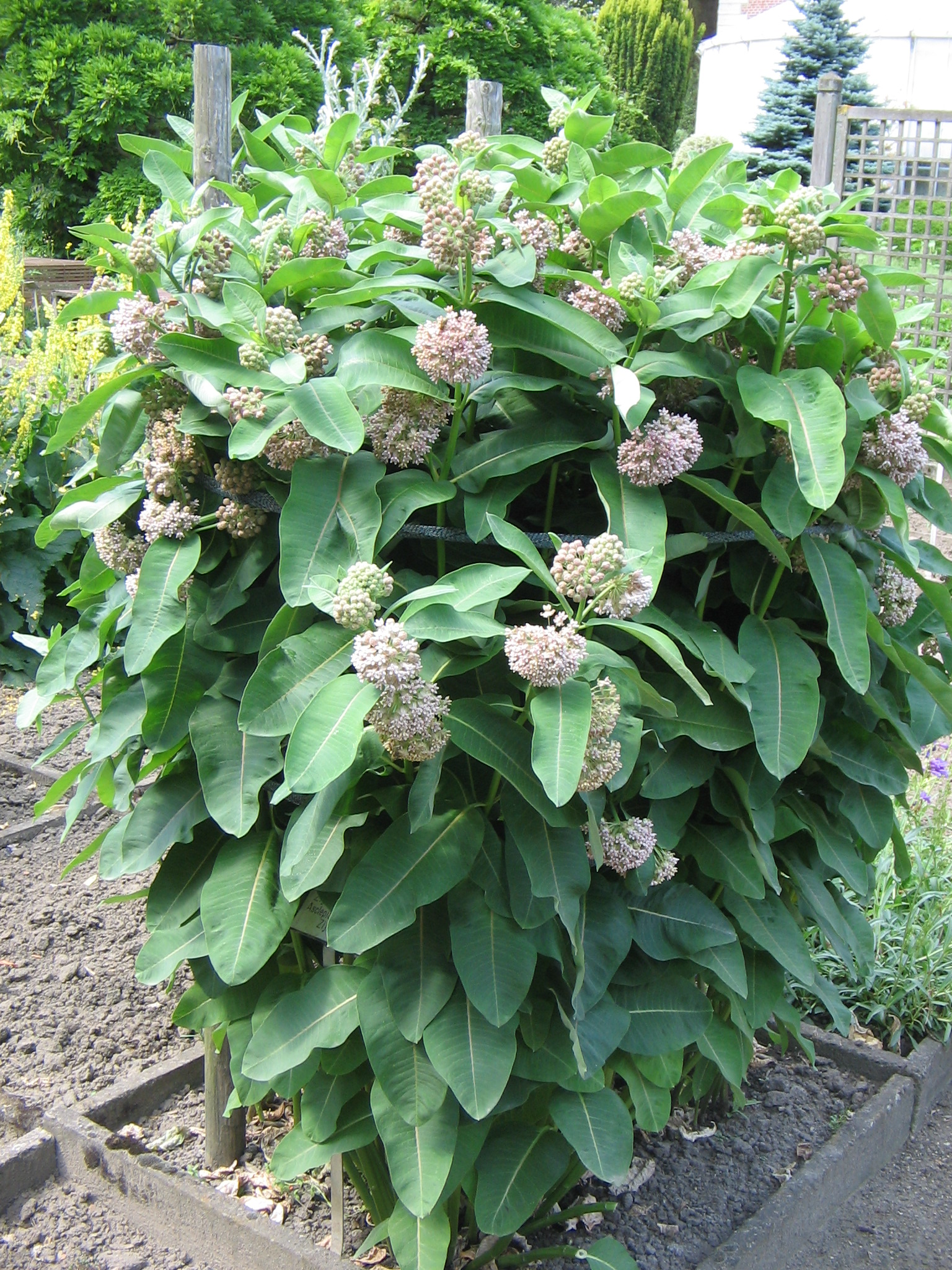 Asclepias syriaca